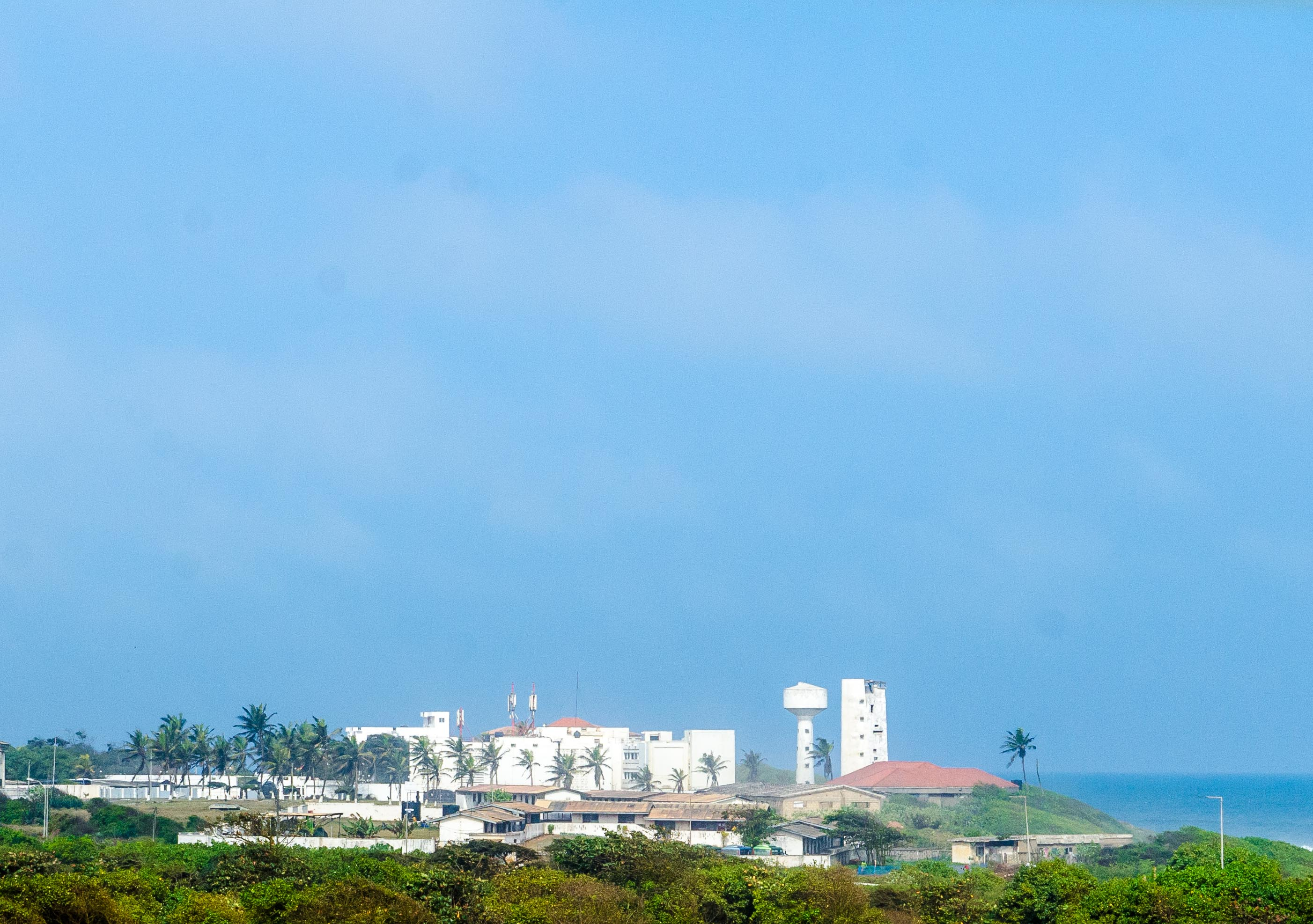 Christiansborg Castle was built in 1659 and located in Osu, Accra in the Greater Accra Region of Ghana.